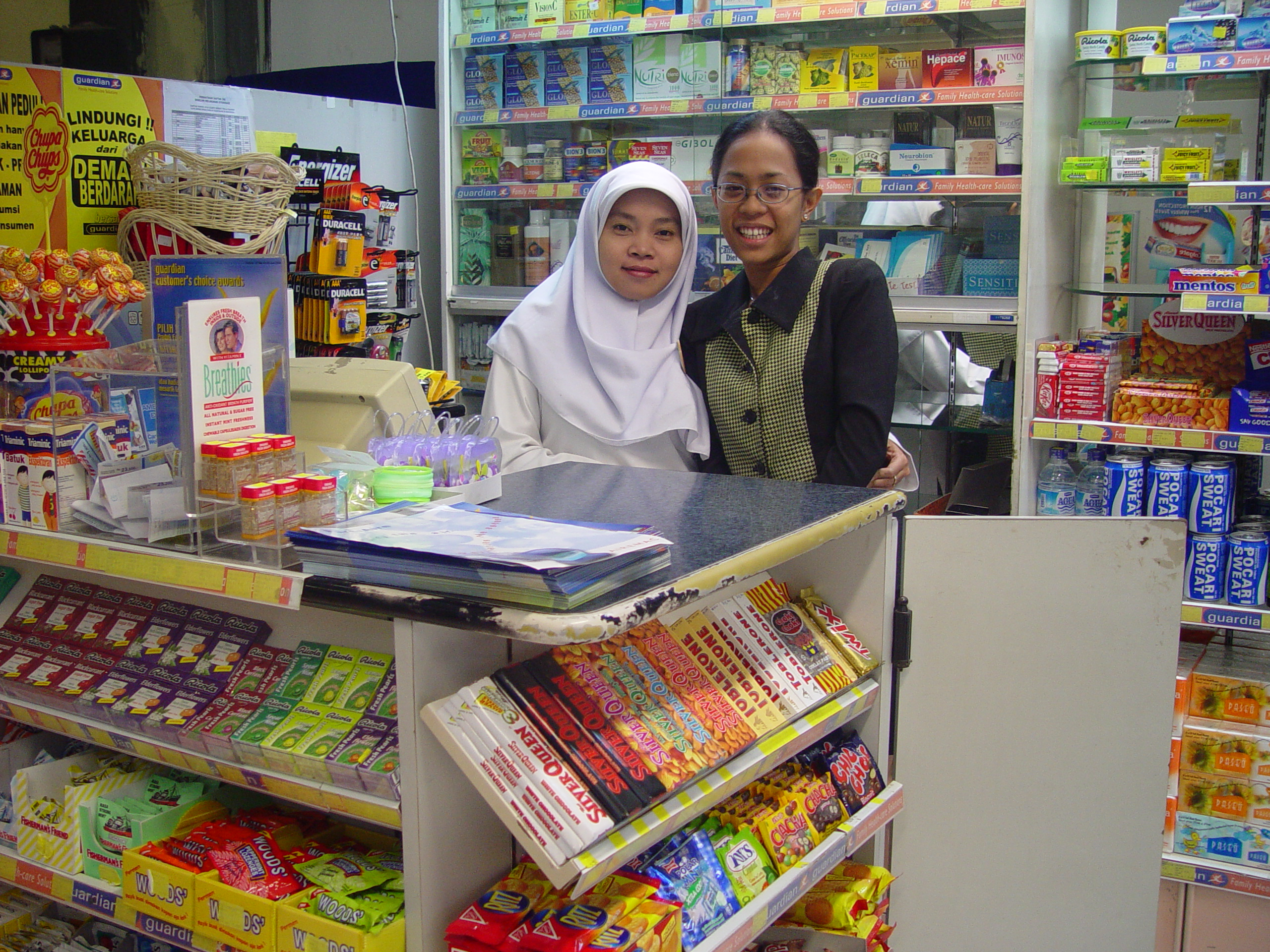 Mall cultural in Jakarta, Indonesia.